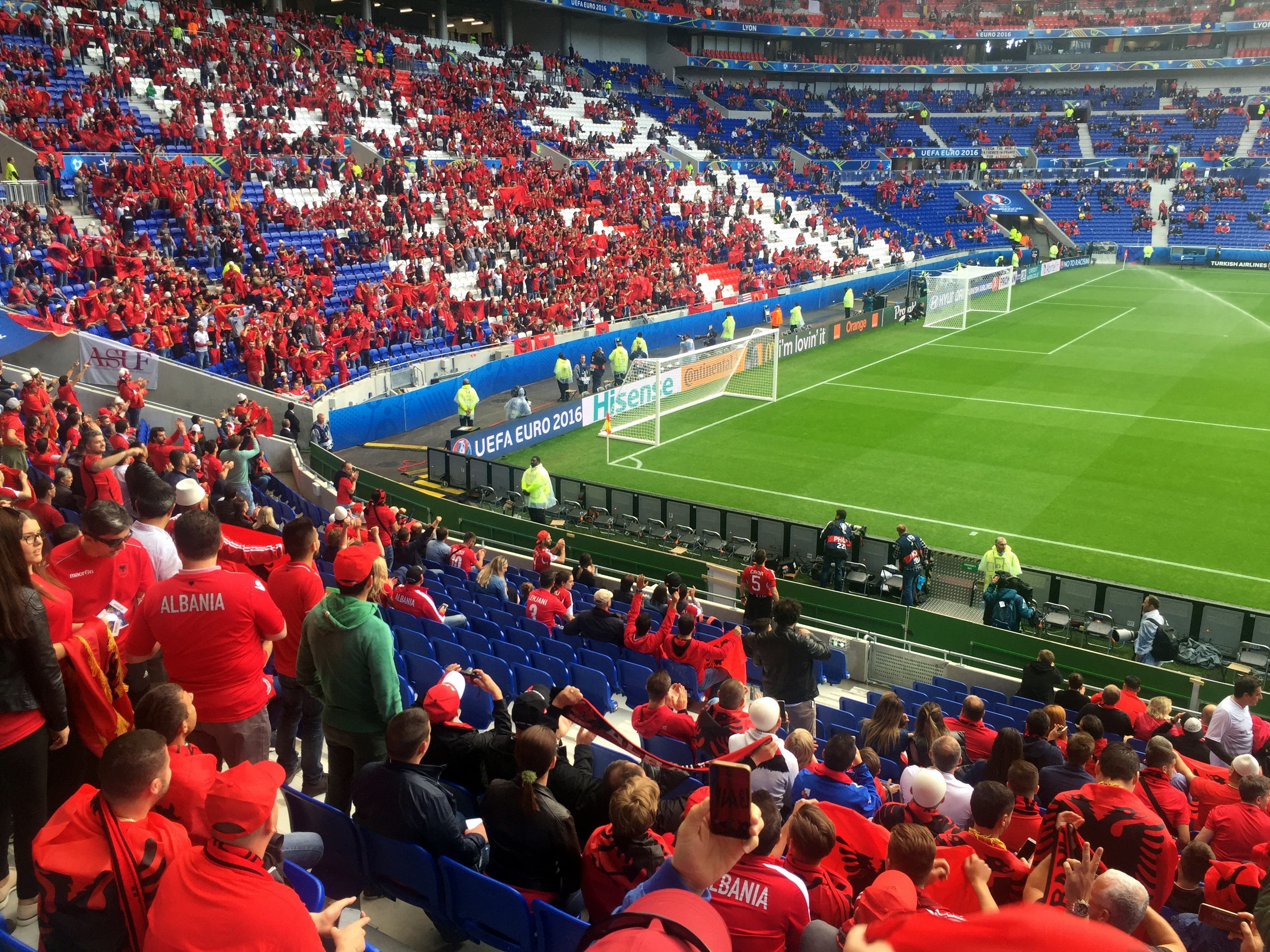 Romania-Albania (2016-06-19)